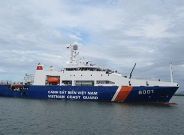 CSB-8001 is a ship of Vietnam Coast Guard